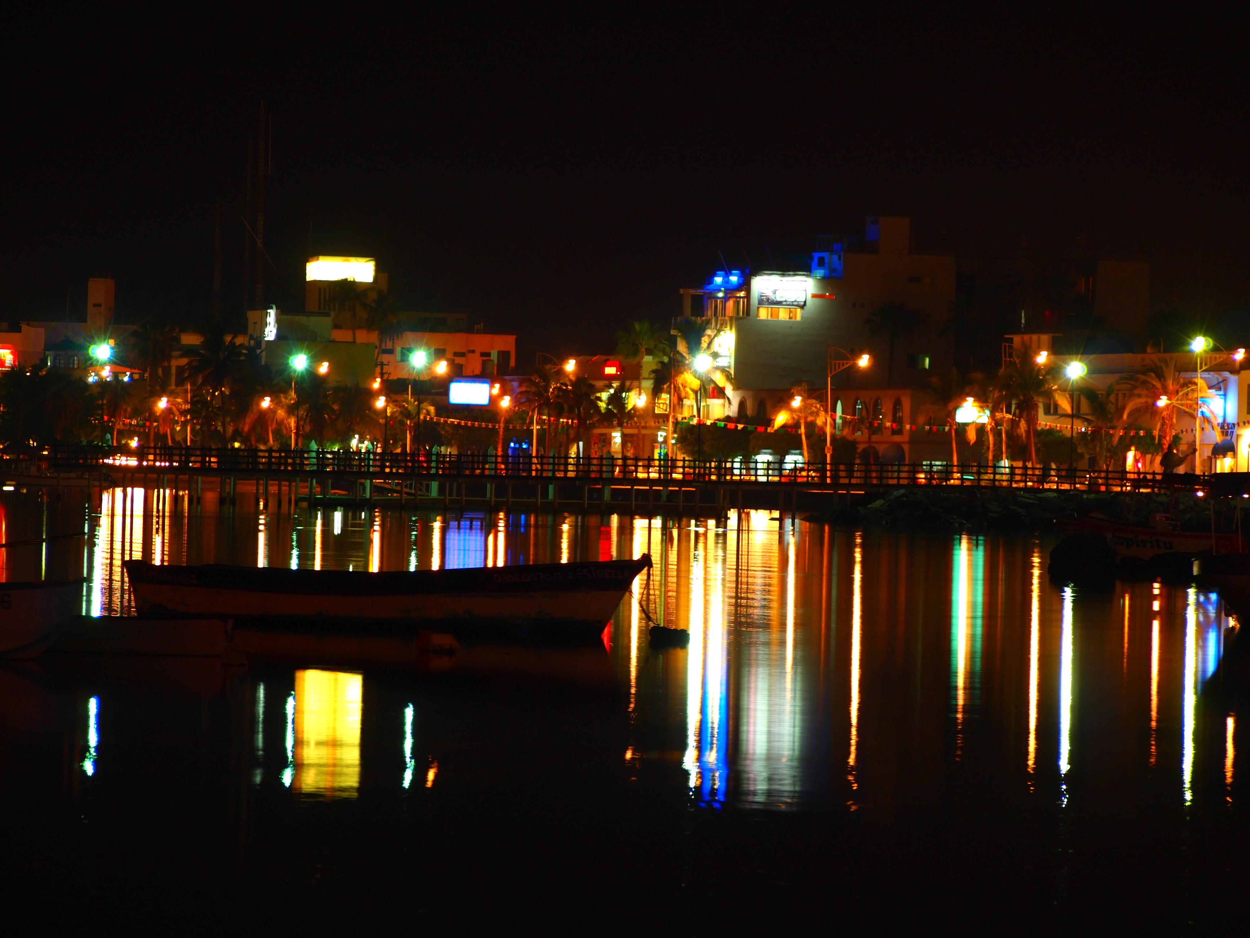 View of the Malecon of La Paz